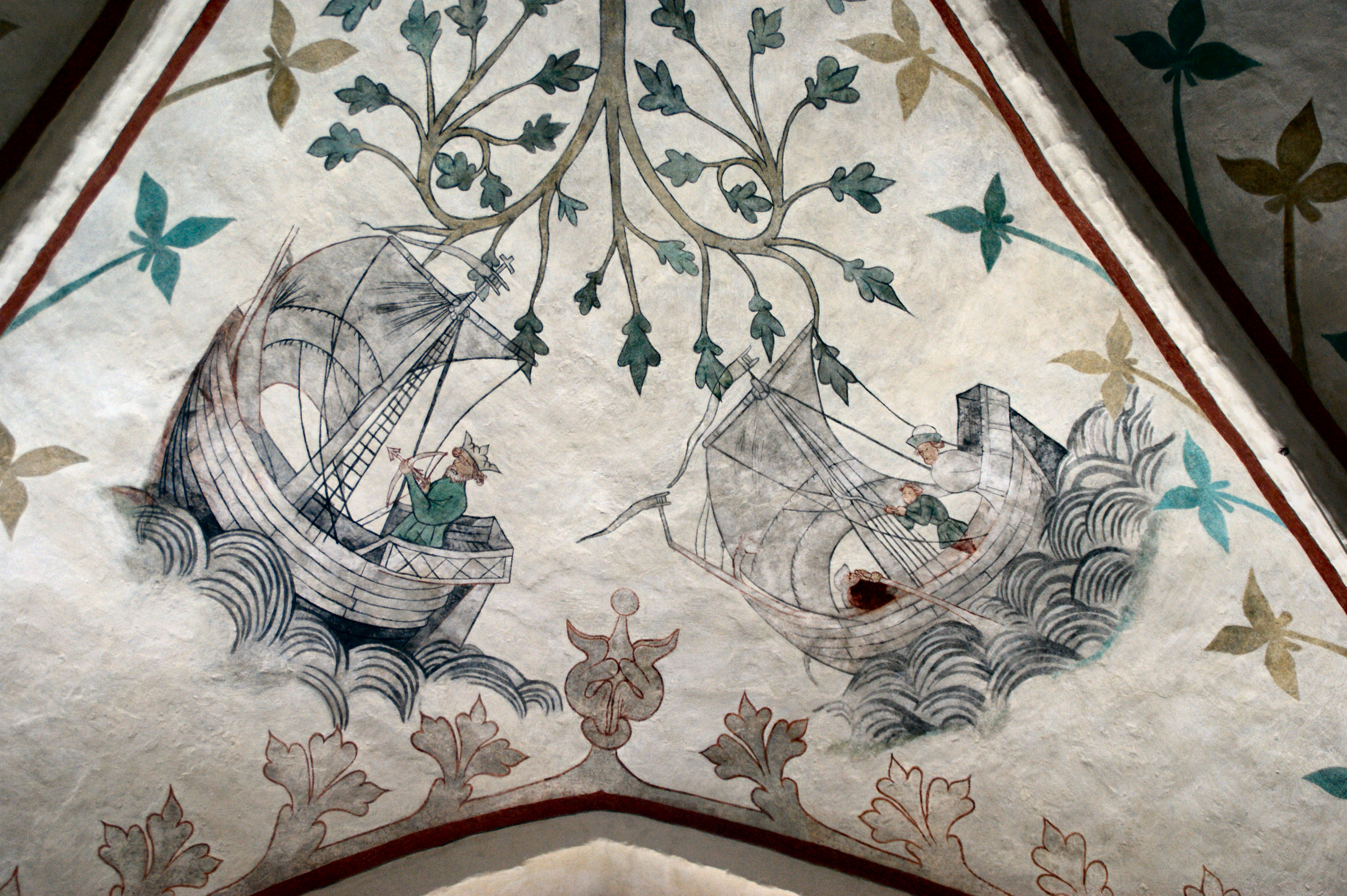 Hojby Church, Denmark: Fresco: Saint Olav